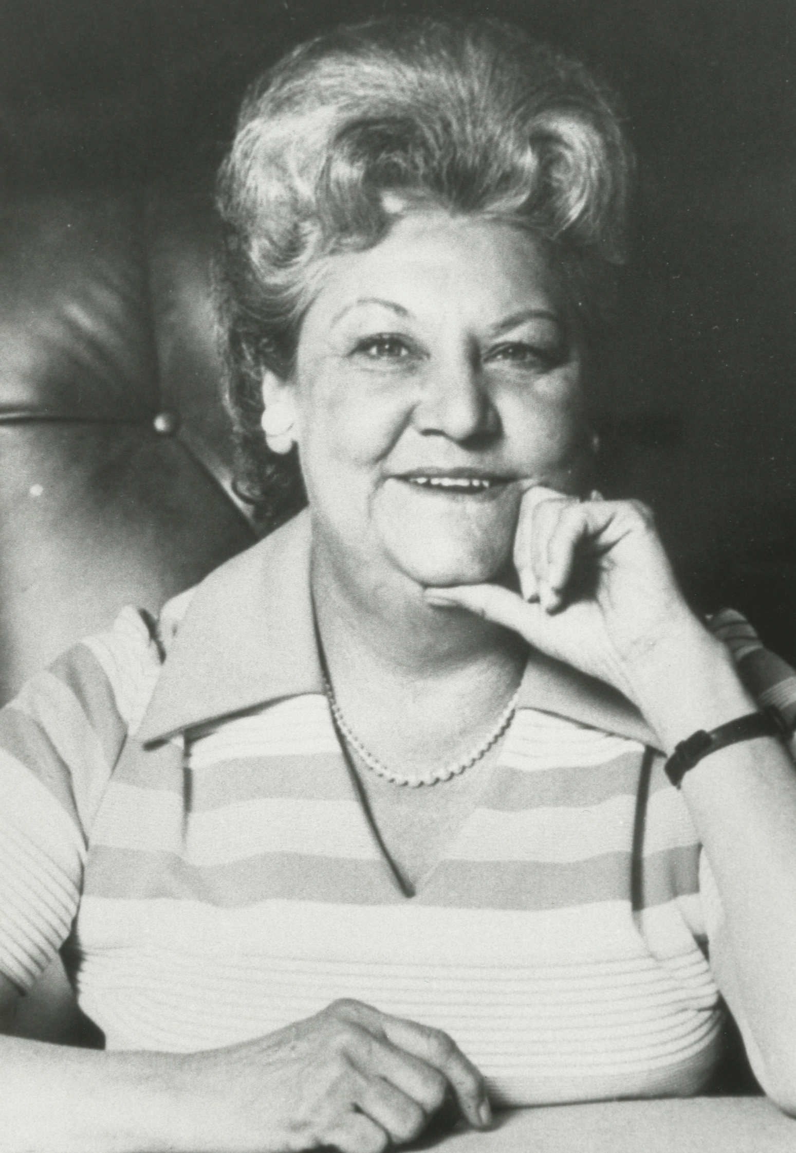 An undated photograph of Thelma Stovall (April 1, 1919 - February 4, 1994) of Kentucky, probably taken while she was Lieutenant Governor of Kentucky in the 1970s.